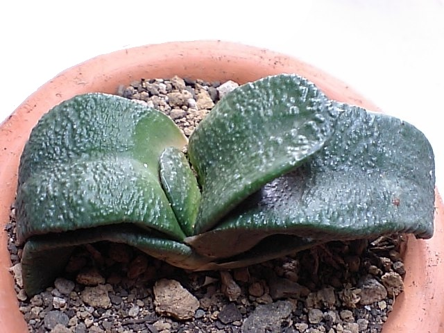 Gasteria armstrongii